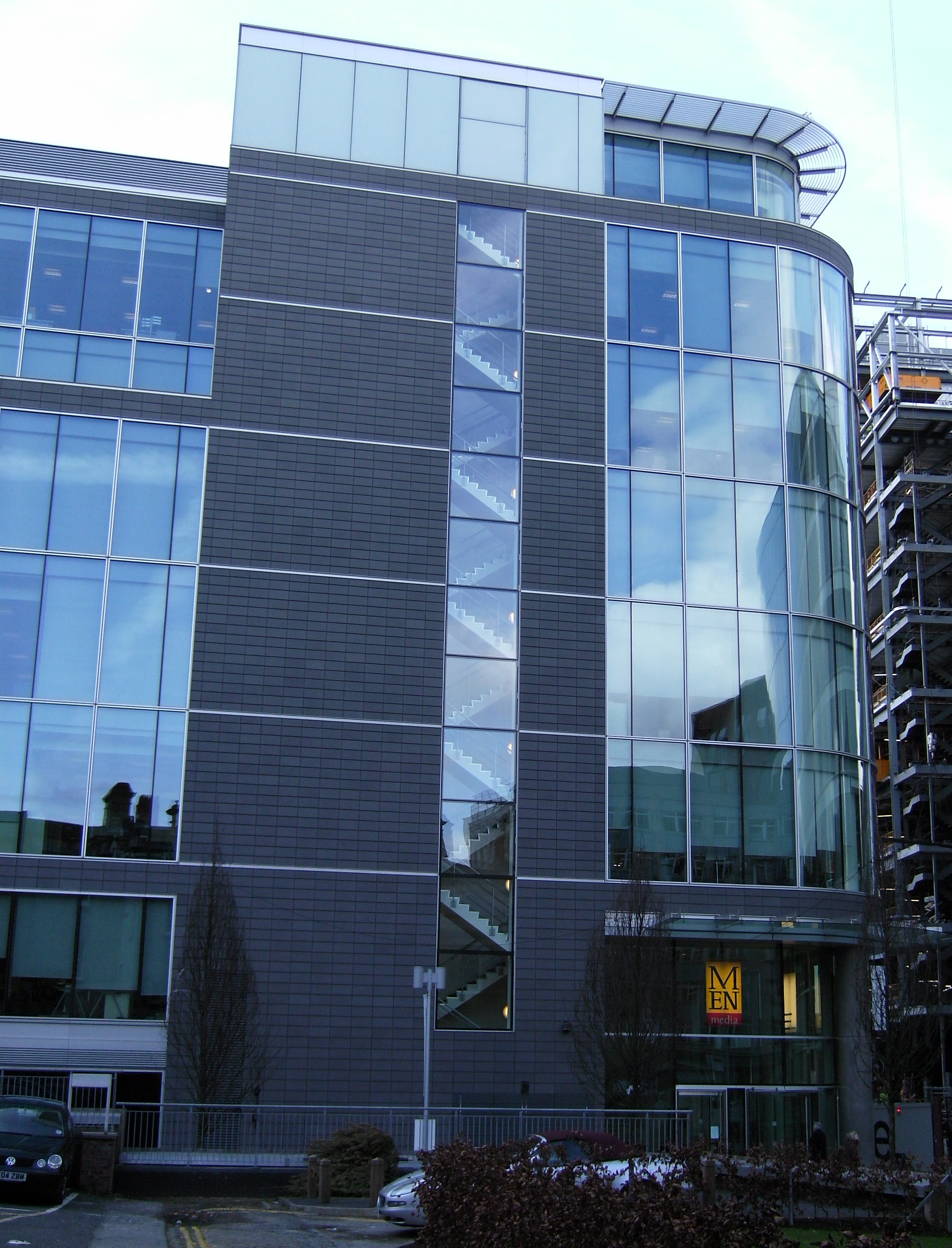 The MEN Media HQ in Manchester, England